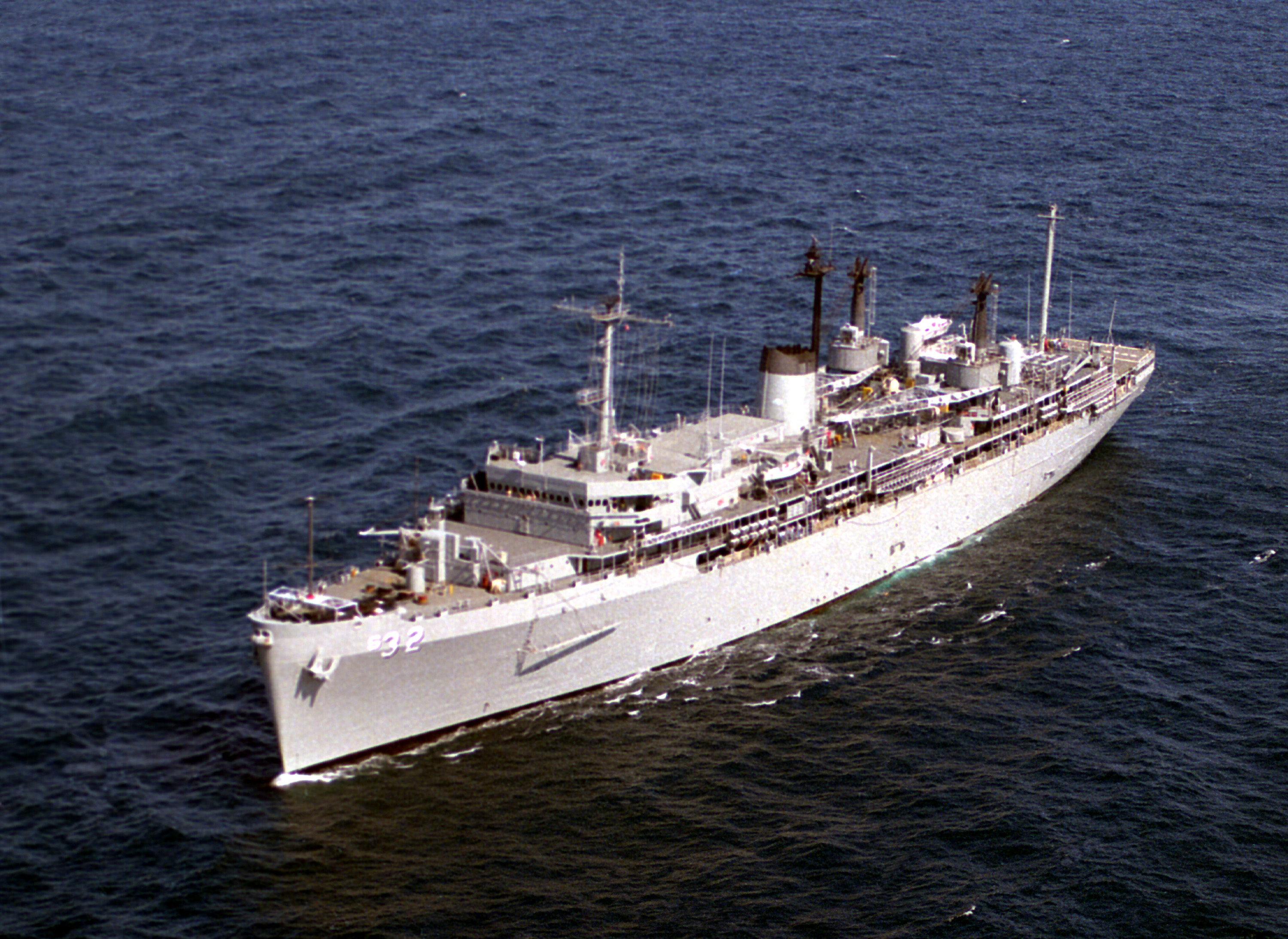 The U.S. Navy submarine tender USS Holland (AS-32) on 28 April 1989, which accompanied the aircraft carrier USS Forrestal (CV-59) to New York City (USA), for the "Fleet Week '89".